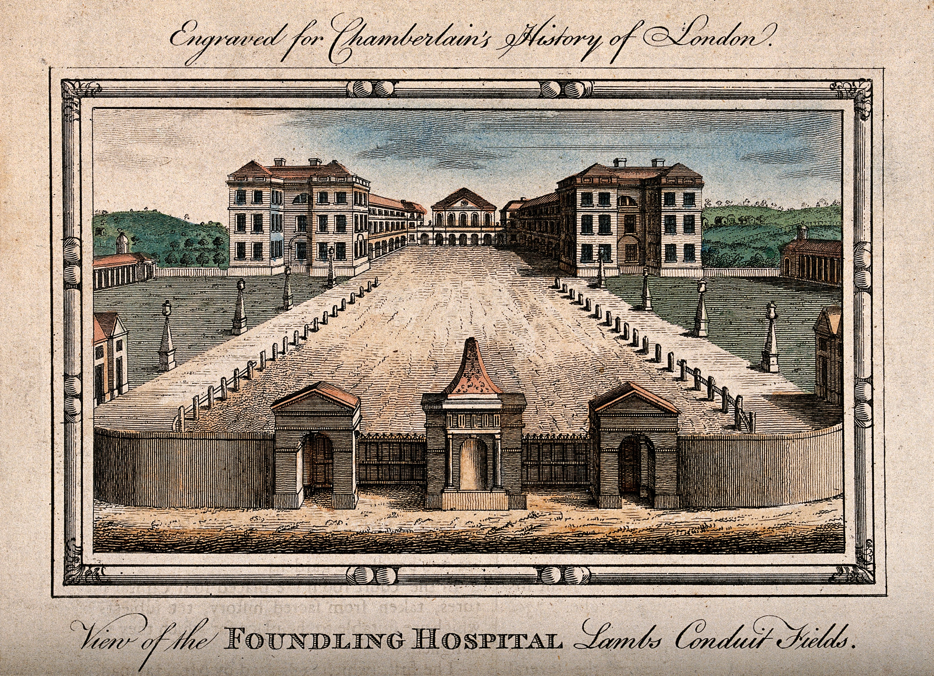 The Foundling Hospital, Holborn, London: a bird's-eye view of the courtyard. Coloured engraving, 1770. Iconographic Collections Keywords: foundling hospital; Theodore Jacobsen; theodore jacobsen; h9olborn; Foundling Hospital (London)